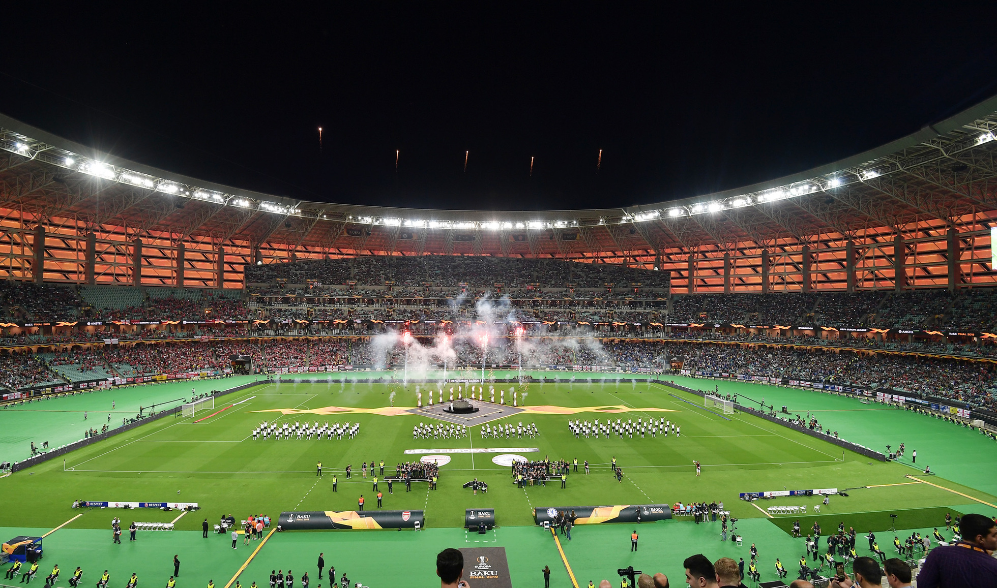 Chelsea won UEFA Europa League final at Olympic Stadium and President Ilham Aliyev watched the final match